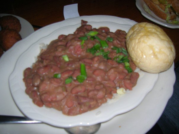 This a picture of a plate of red beans and rice from the Chimes Restaurant in Baton Rouge, Louisiana.